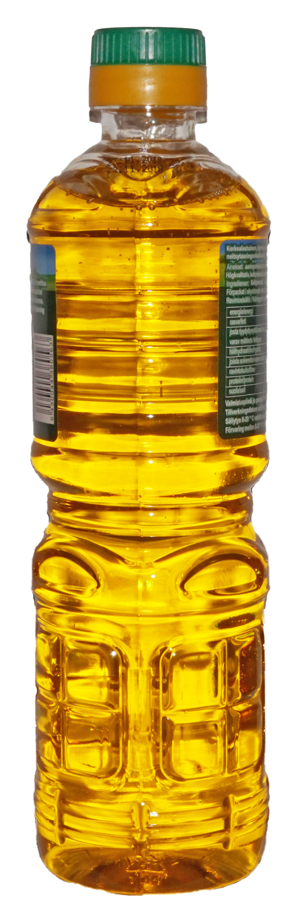 Sunflower oil bottle.